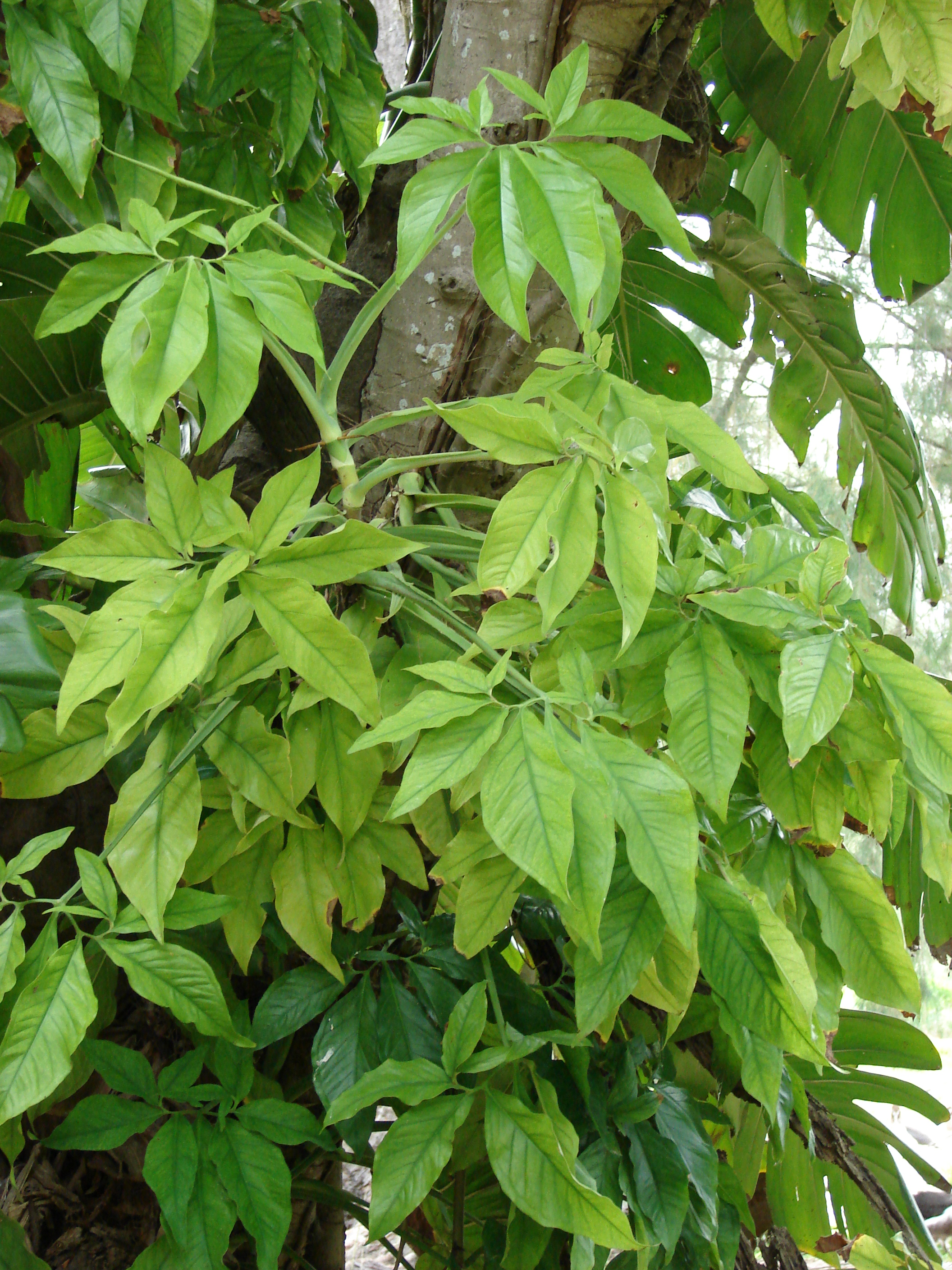 Syngonium podophyllum (leaves). Location: Midway Atoll, Cable Company buildings Sand Island